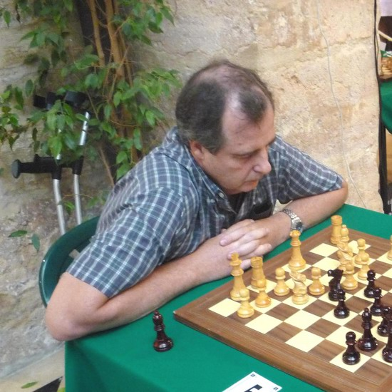 GM Daniel Campora Argentina, Villarrobledo 2008